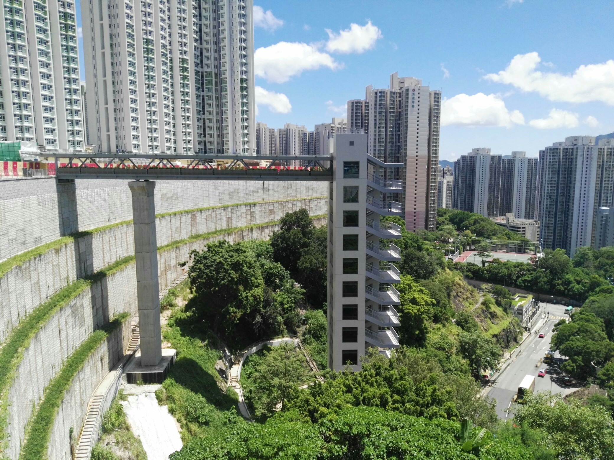 The 15 story high elevator tower that links Shun Tin Estate and On Tai Estate.